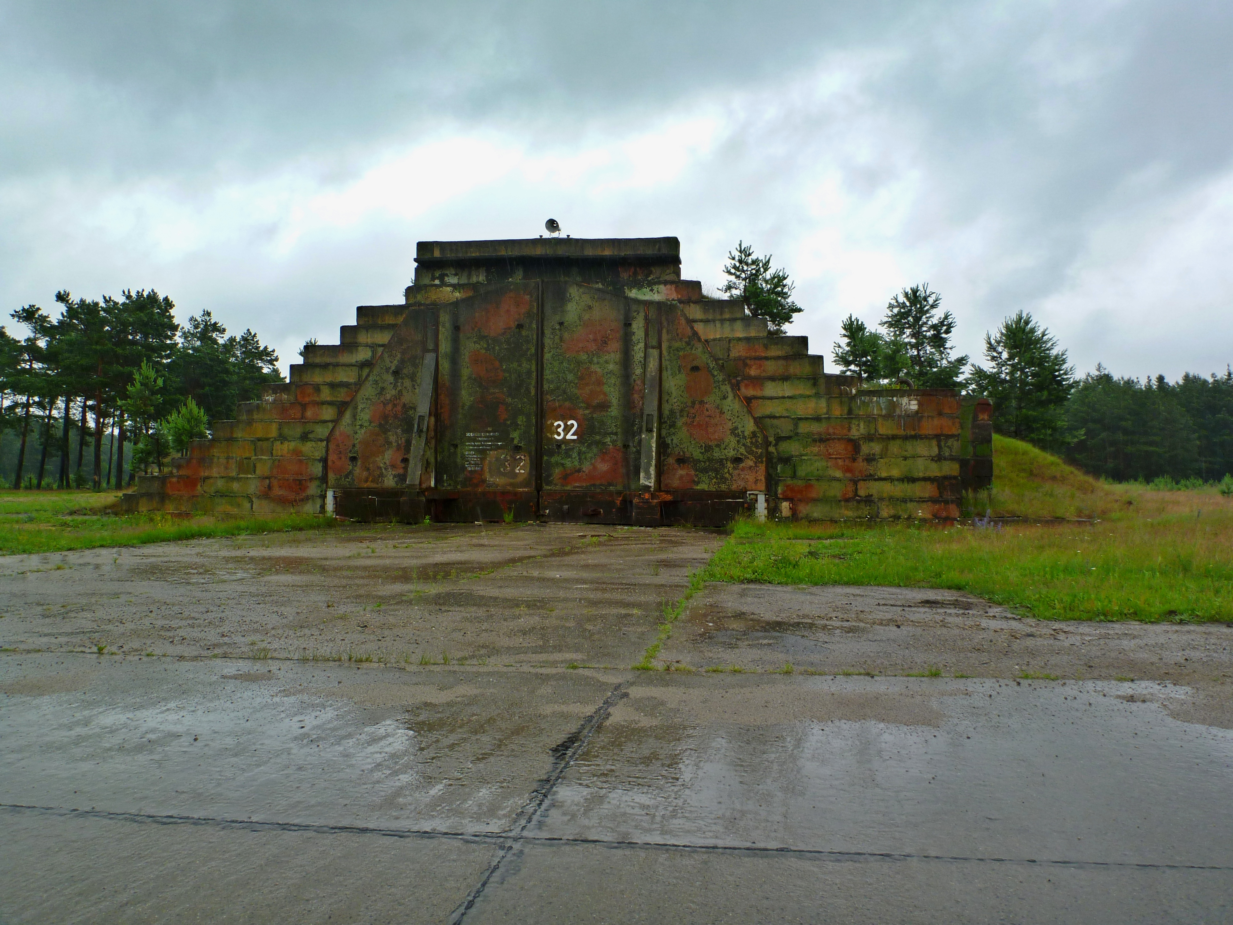 HAS on Airfield Preschen, a former military airport in the southern part of Brandenburg